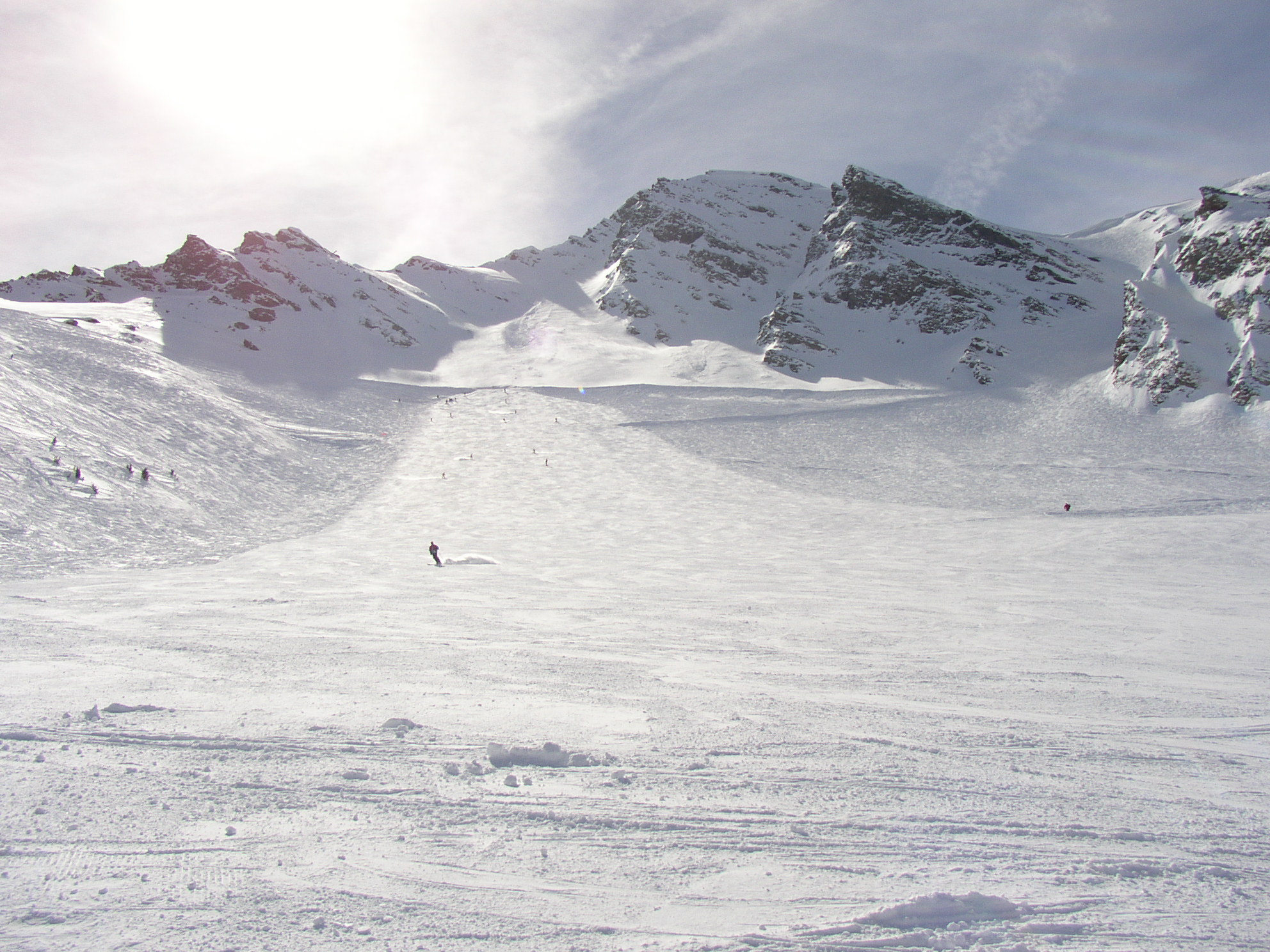 Sight of the ski track Le Clôt, at the top of La Norma ski resort, in Savoie (French Alps).